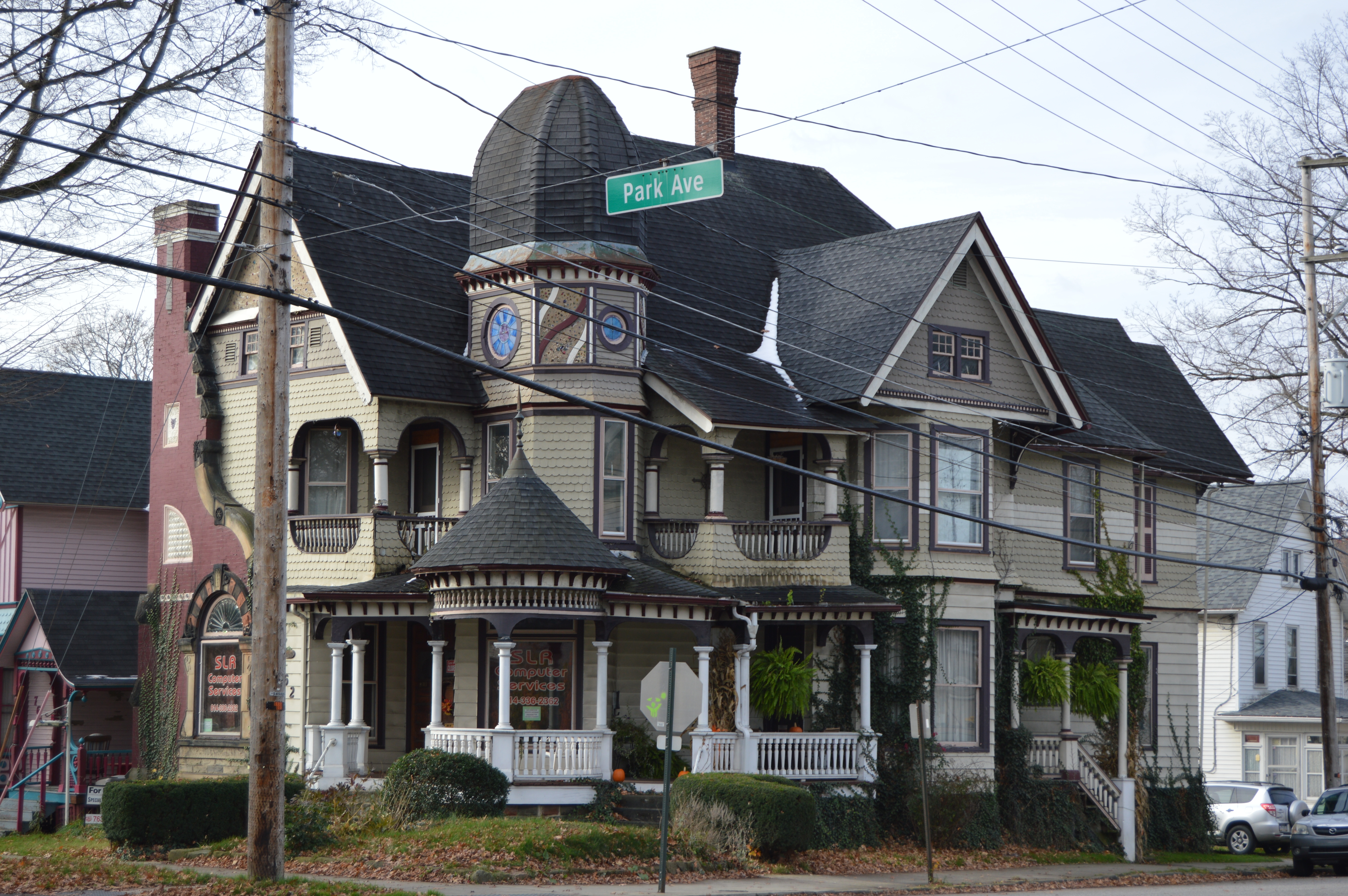 Front and northern side of the Roueche House (now a computer repair company), located at 762 Park Avenue in Meadville, Pennsylvania, United States. Built in 1899, it is listed on the National Register of Historic Places.